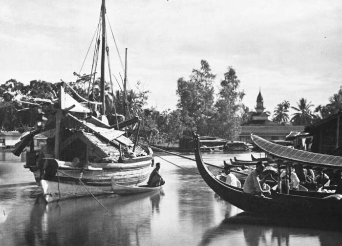 A Madurese proa on the river